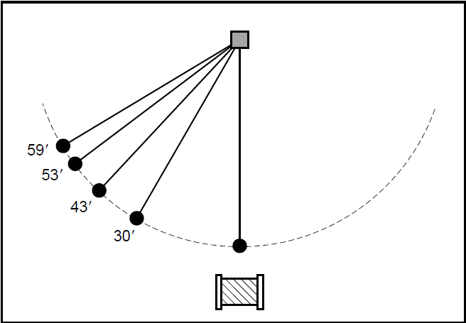 First four quantized amplitudes of Doubochinski pendulum